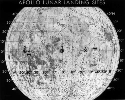 Map of Moon showing prospective sites for Apollo 11. Actual site was site 2.